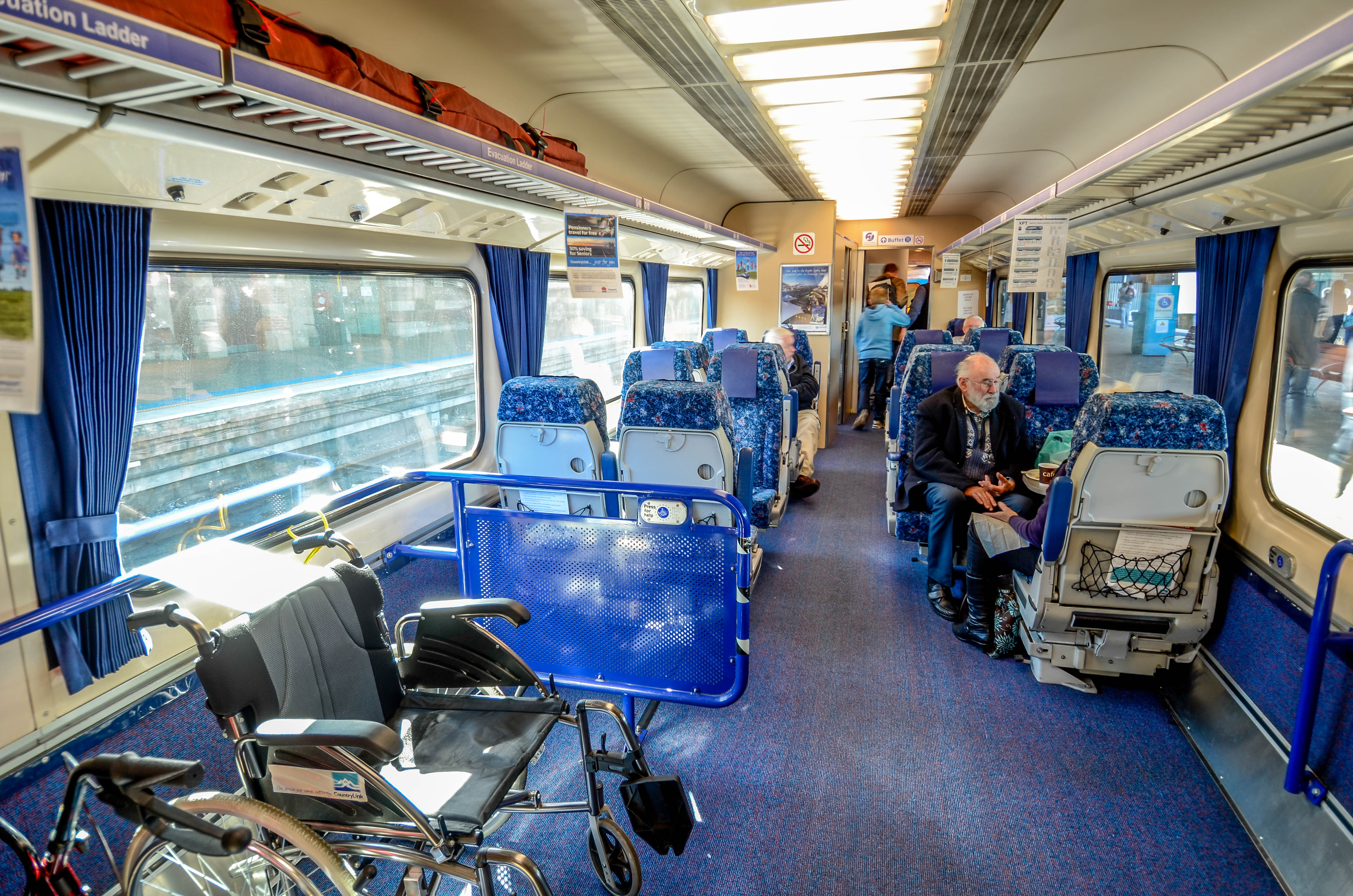 NSW TrainLink XPT Buffet Car